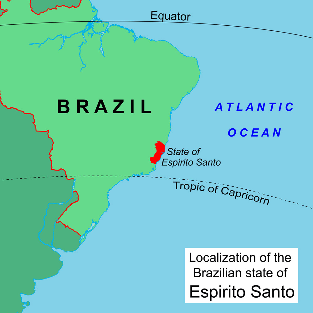 Localization of the Brazilian State of Espirito Santo.